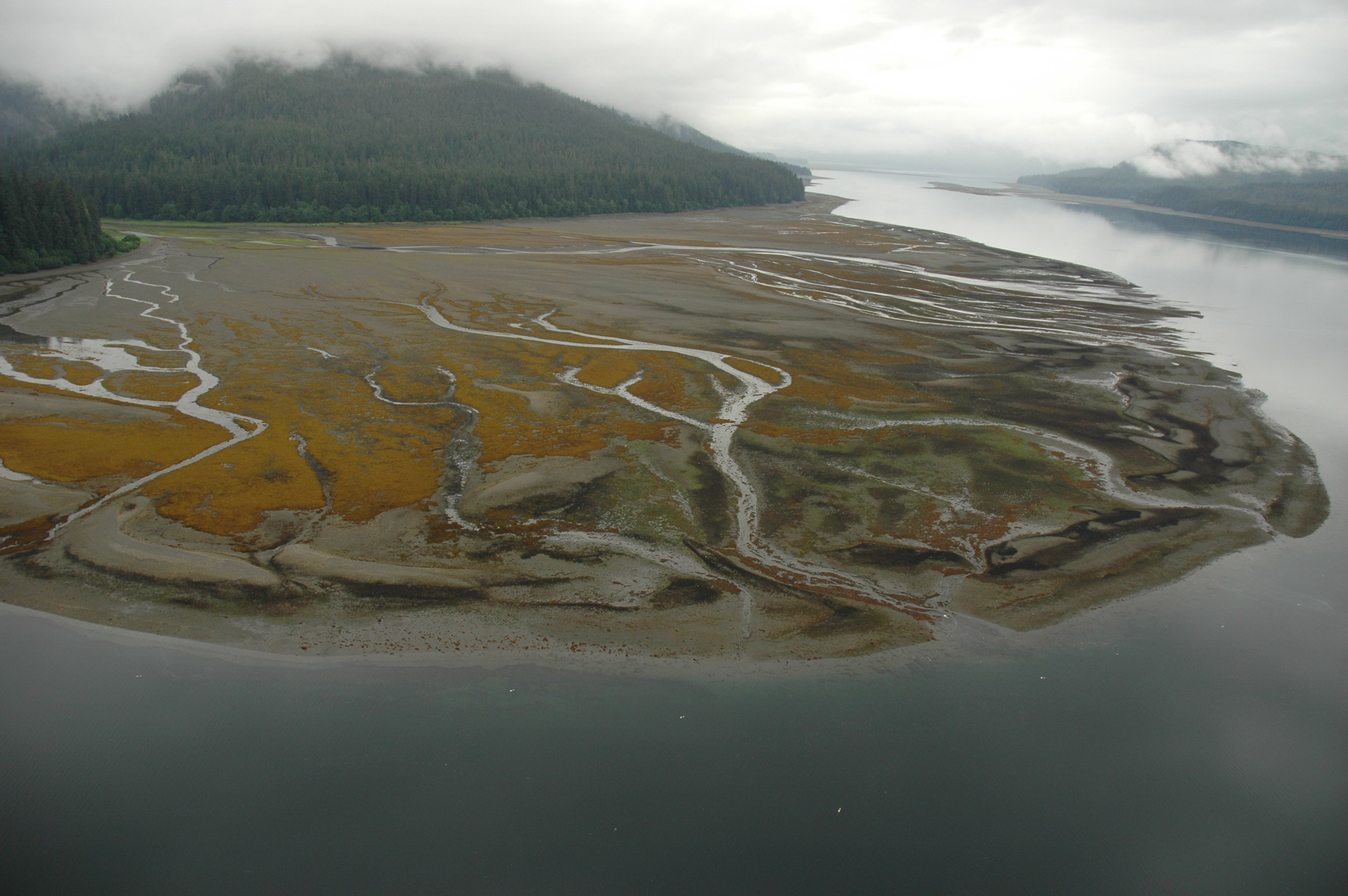 Aerial photograph. A magnificent braided stream and stream delta showing floral zones in the marine algae at low water. Alaska, Seymour Canal.